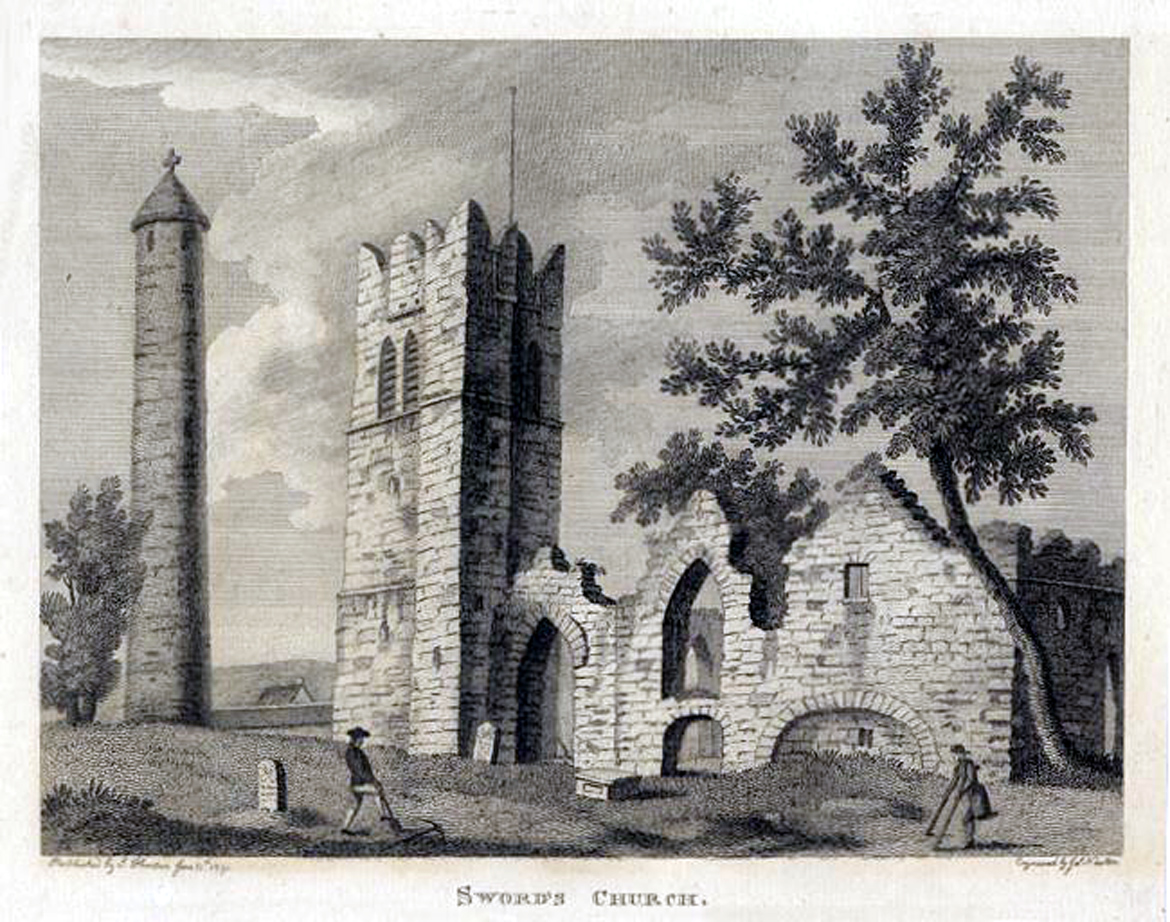 Swords Church in a drawing by Francis Grose